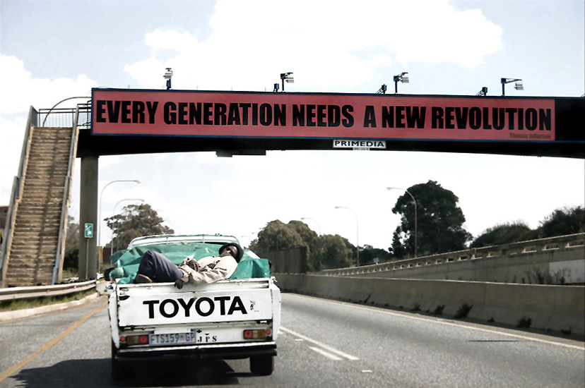 Post-apartheid Soweto highway. Photo by Gary Mark Smith.